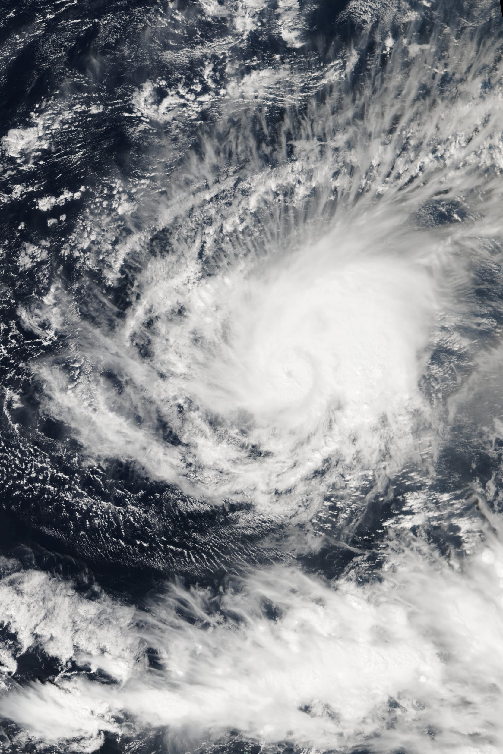 Hurricane Pali (01C) near peak intensity on January 13, 2016